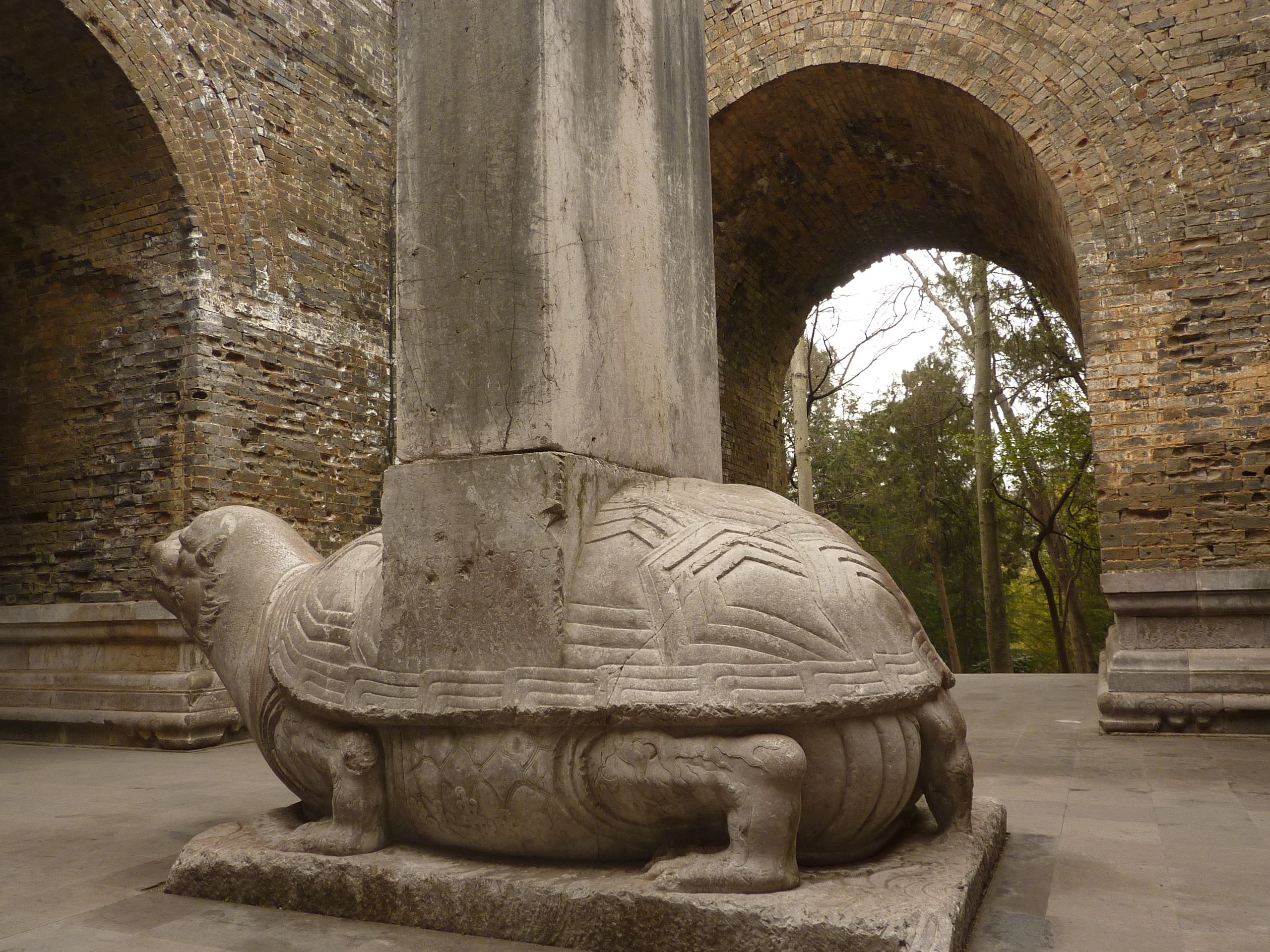 Inside the Sifangcheng Pavilion of Ming Xiaoling. The great bixi tortoise, holding the Shendong Shengde stele honoring the Hongwu Emperor. On the base of the stele one can see graffiti scratched by US sailors from USS Villalobos ca. 1910.